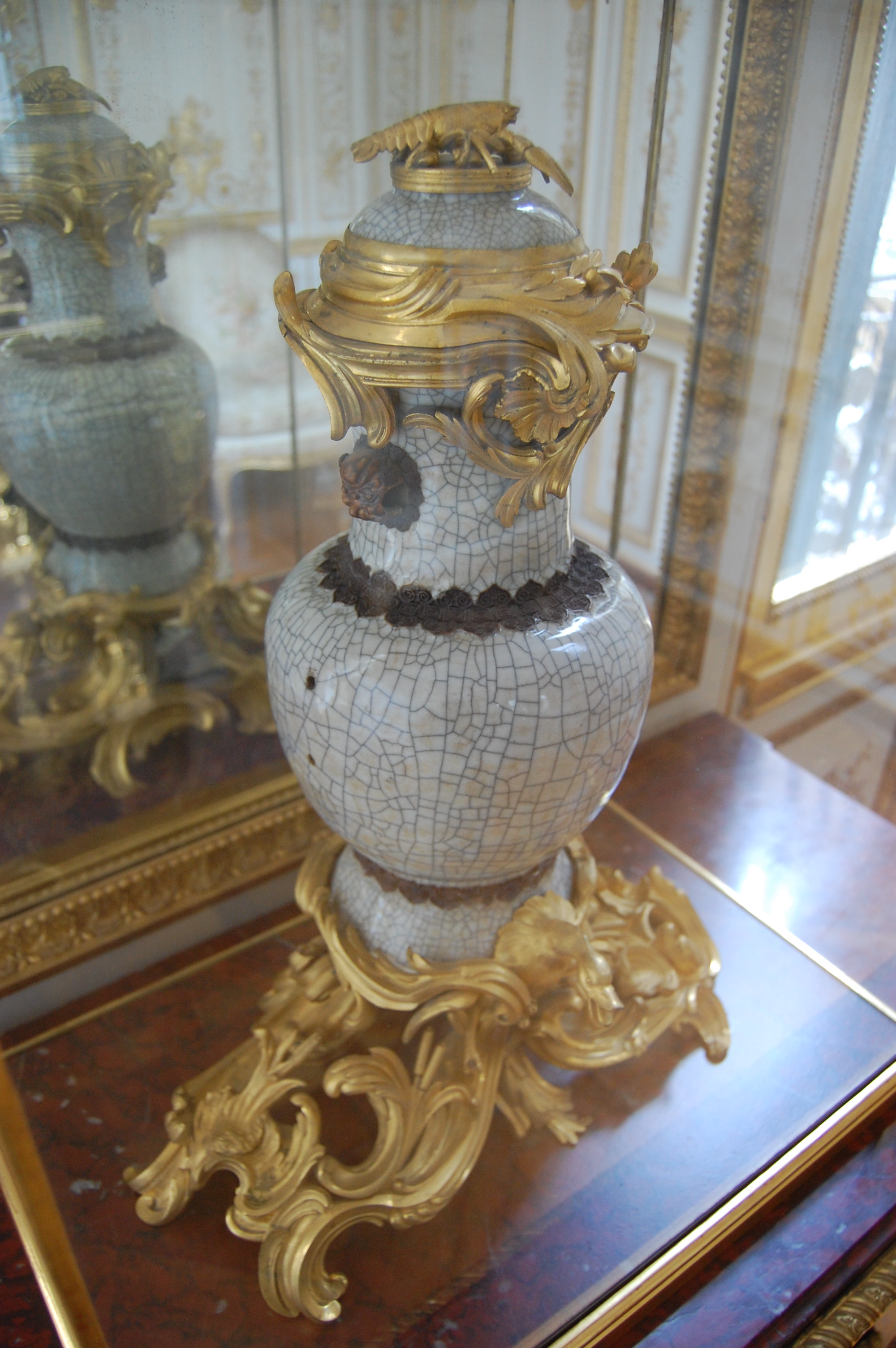 Louis XV's perfume fountain